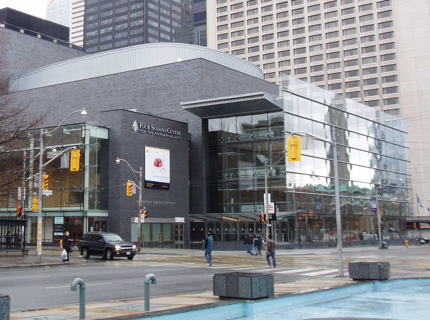 Four Seasons Opera House At Queen Street and University Avenue in Toronto